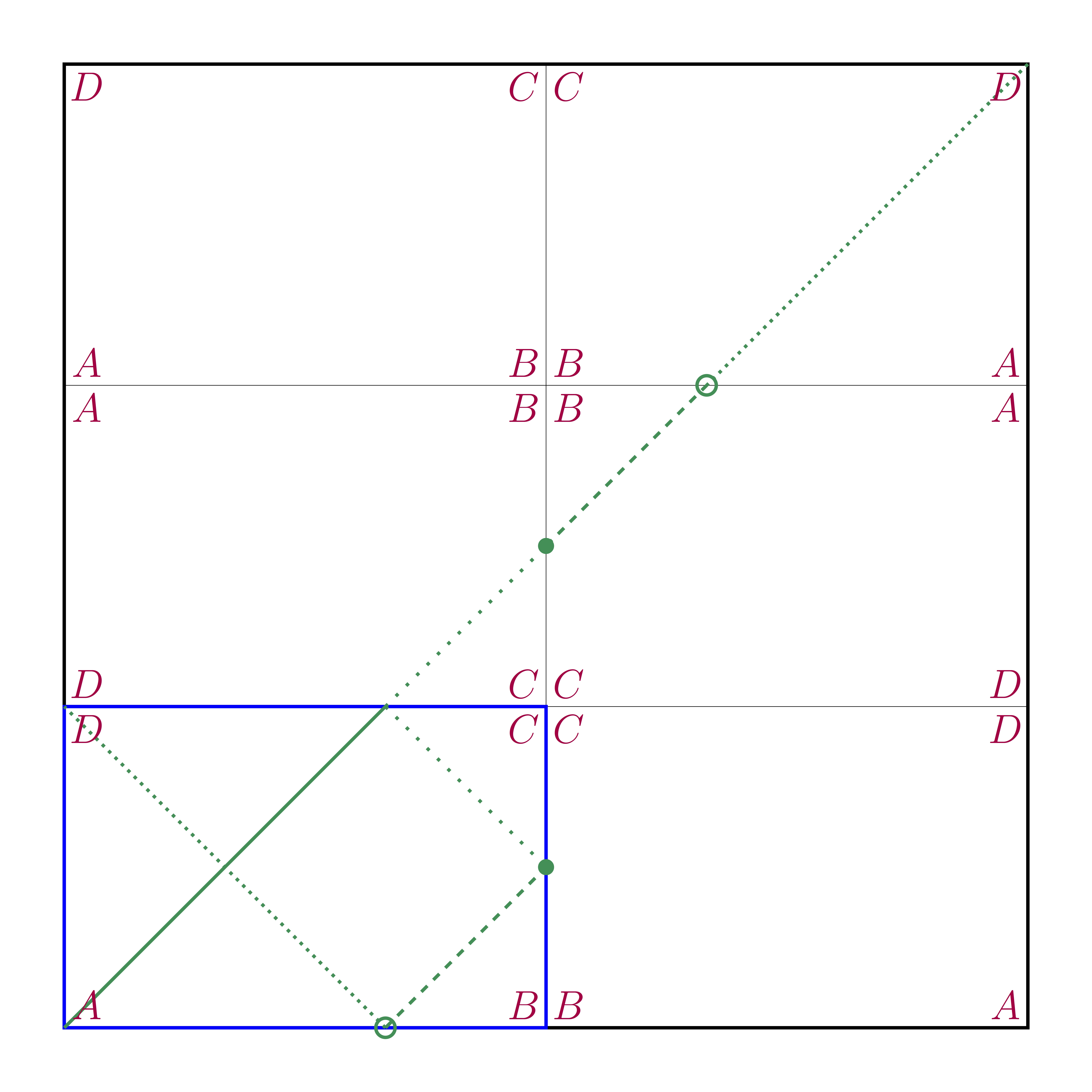 Mathematical image of an arithmetic billiard. Example explaining the reflection of the billiard, if the side ratio is 2/3.